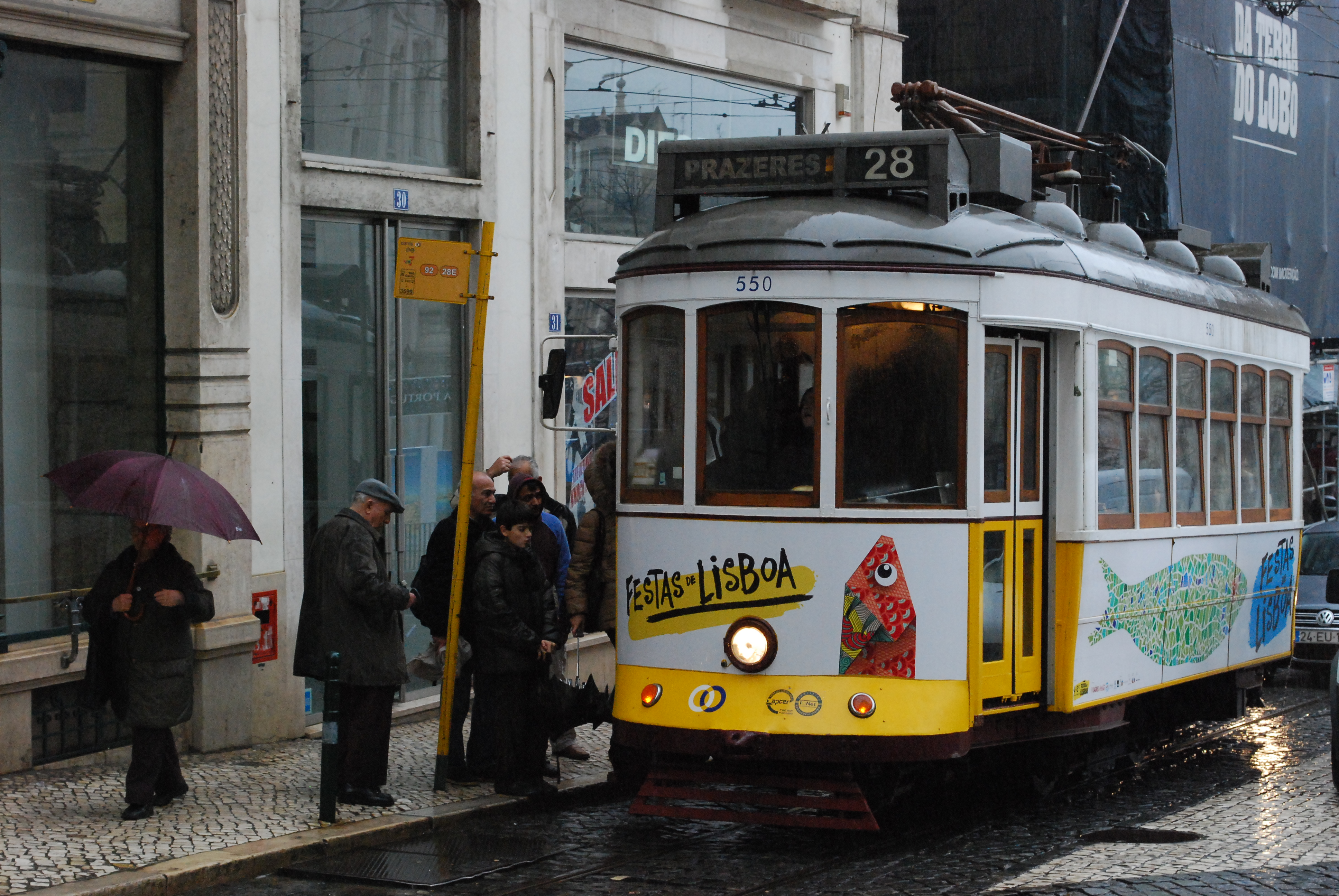 Lovely stuff.